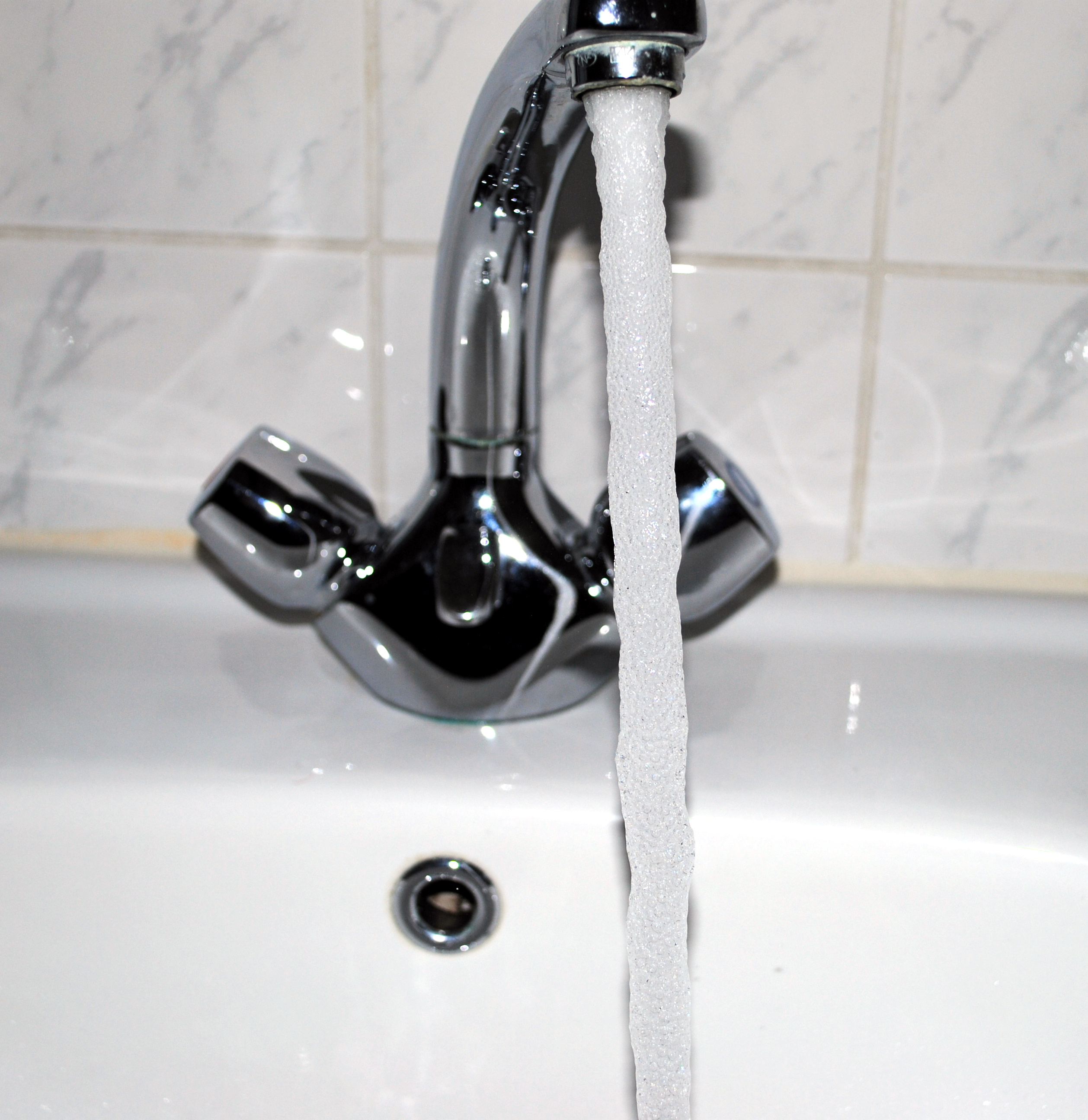 Aerated water from a tap.